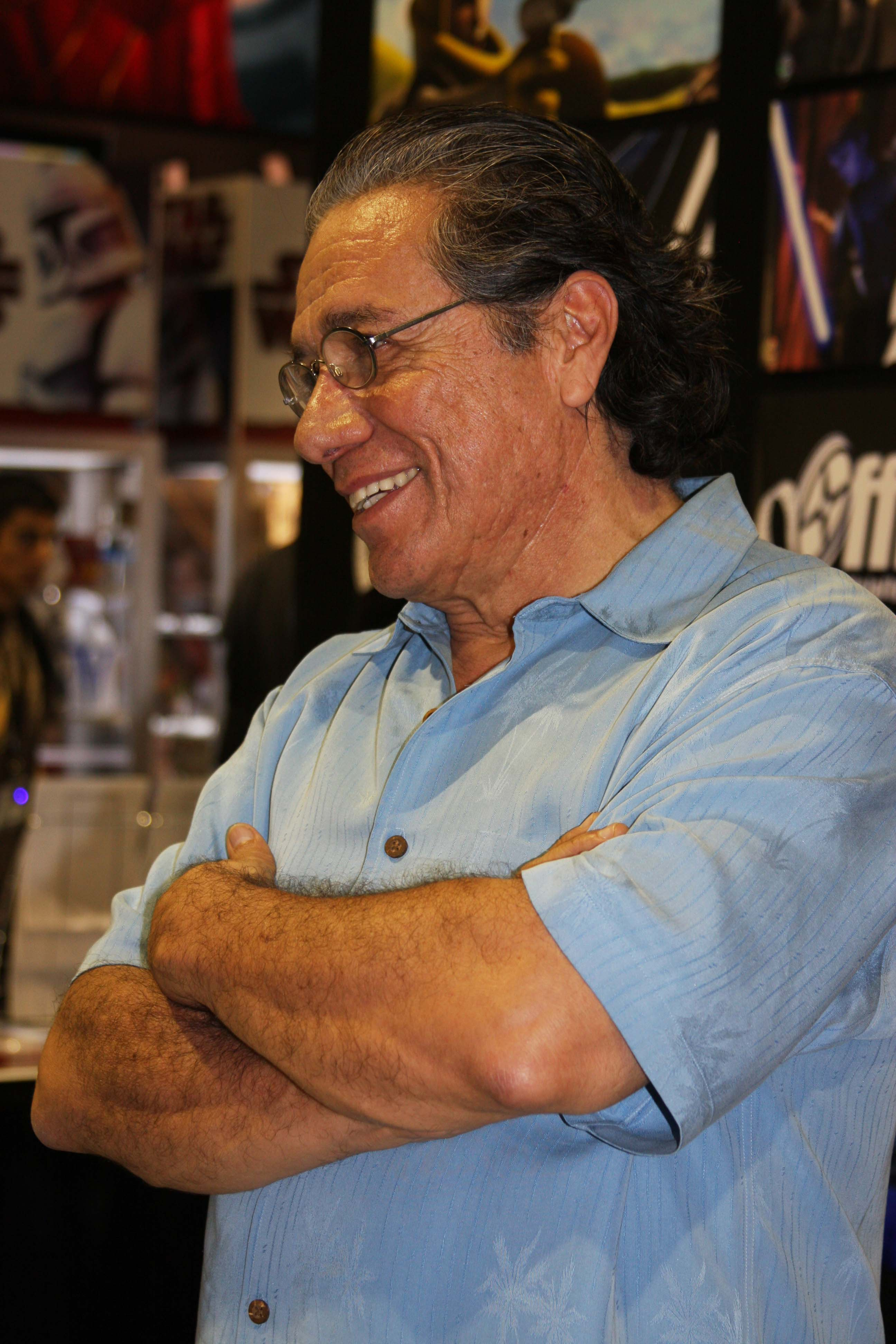 Edward James Olmos at the 2009 San Diego Comic Con International